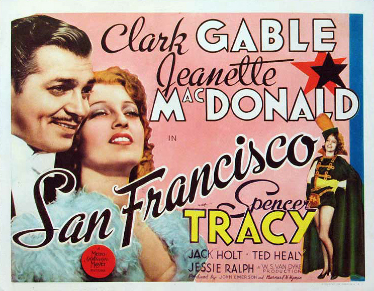 Lobby card for the 1936 film San Francisco.